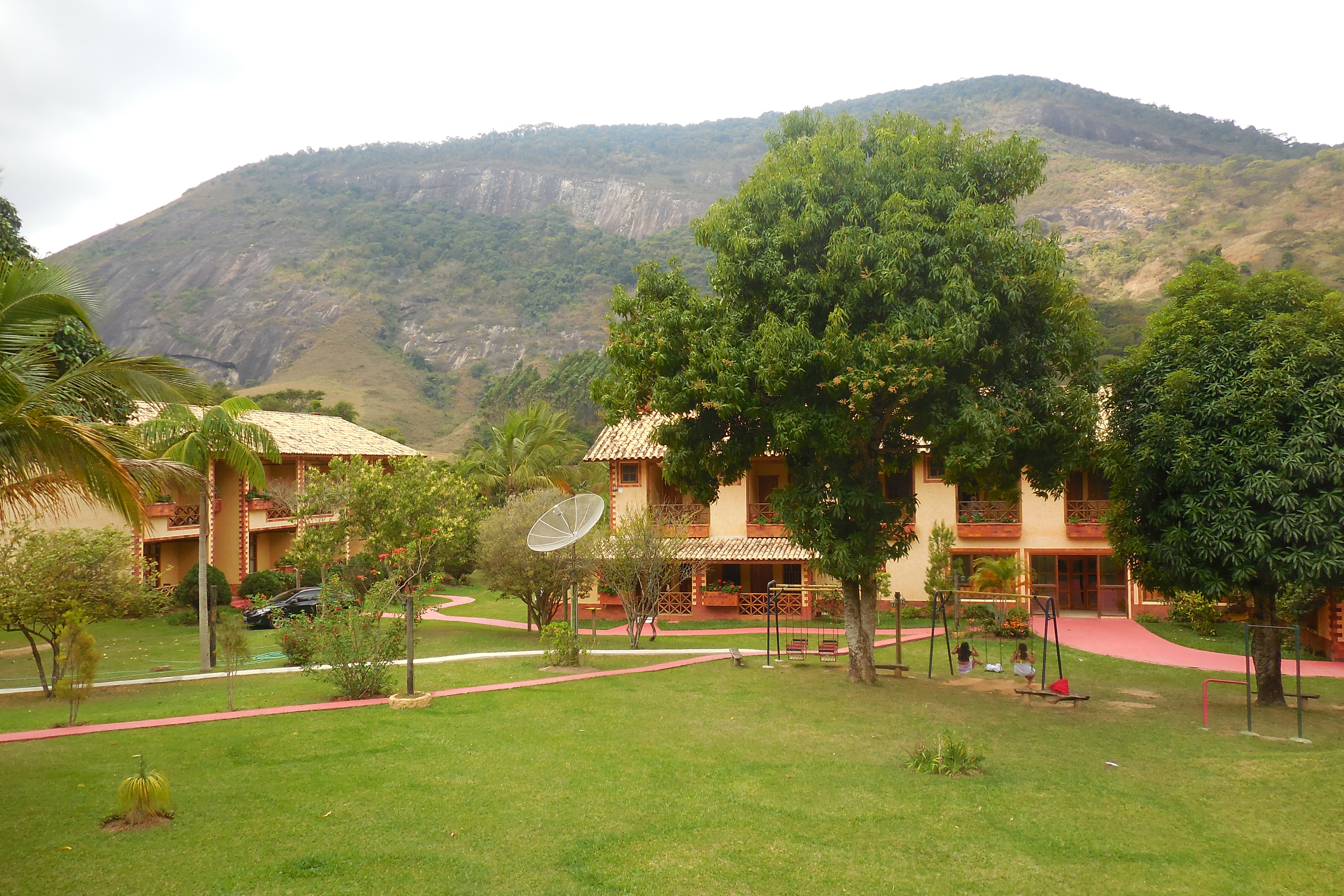 Interior of the Solar das Hortênsias inn, in Marliéria, Minas Gerais, Brazil.